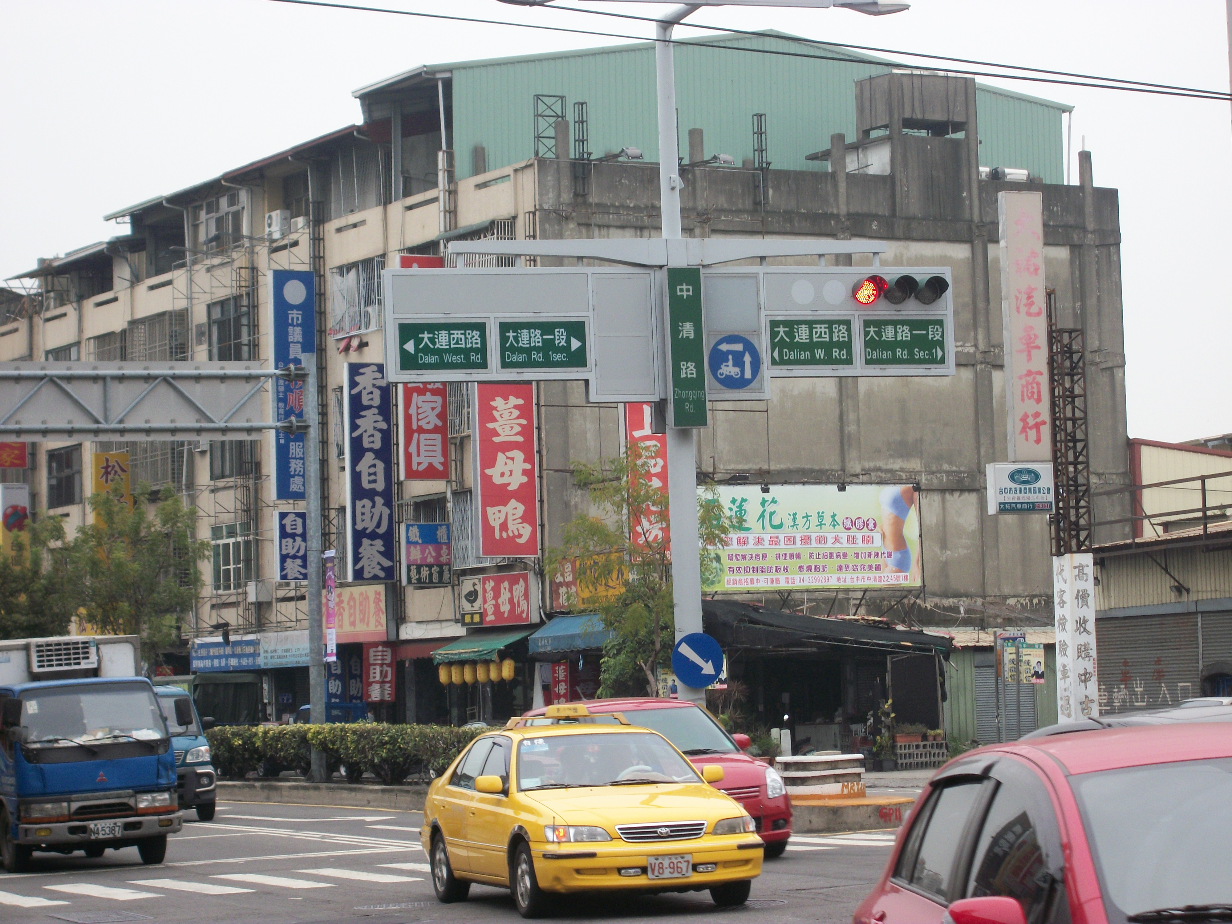 The intersection of Zhongqing Rd. and Dalian Rd.,Taichung City.Zhongqing Rd. belongs to the section of Highway No.3.中文（台灣）: 臺中市中清路與大連路口。中清路是屬於臺3線的路段。